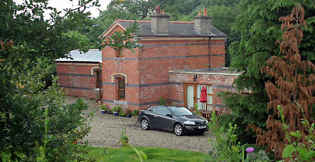 Aghadowey Railway Station. Aghadowey Railway Station has also been a doctors surgery and now a private home.